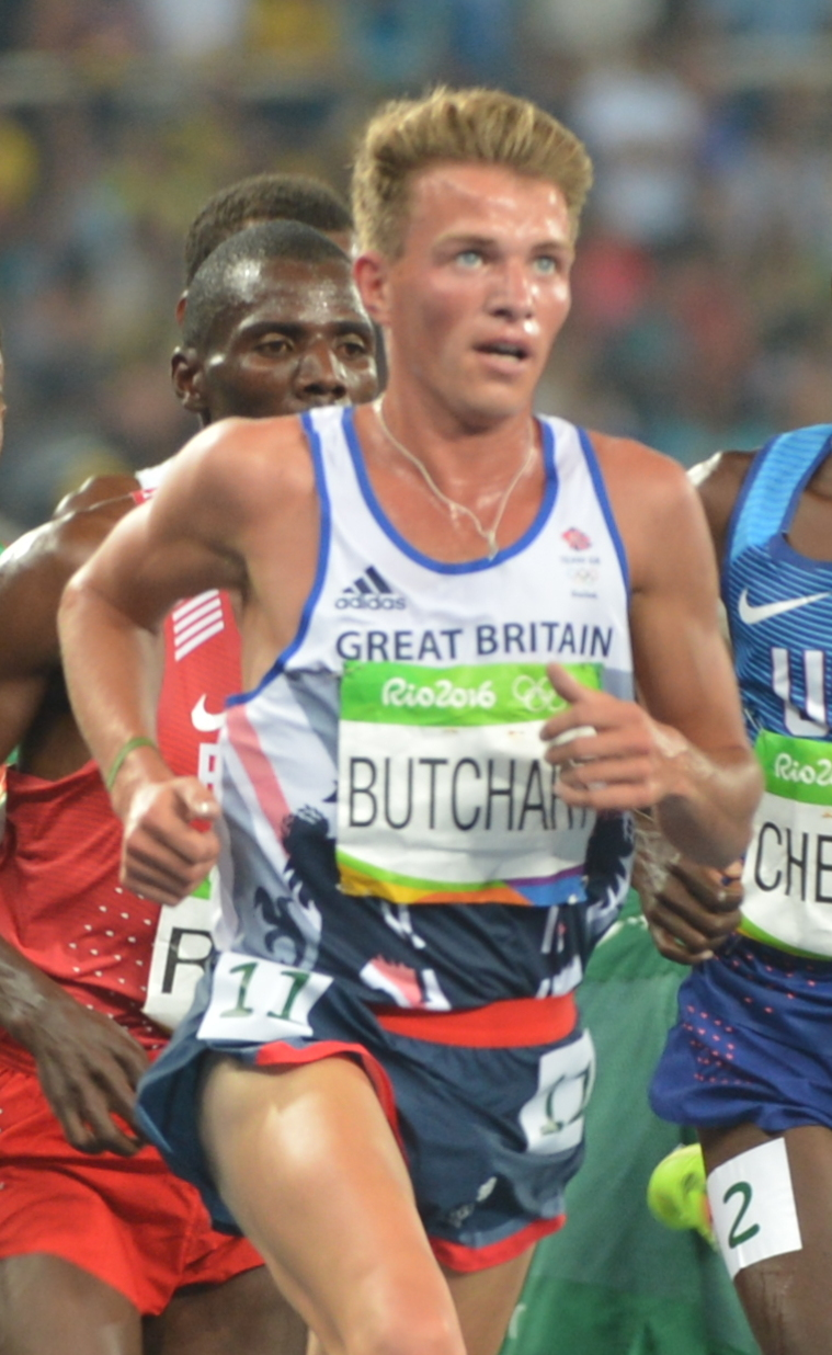 Andrew Butchart in the men's 5,000-meter run at the Rio Olympic Games in Rio de Janeiro. U.S. Army photo by Tim Hipps, IMCOM Public Affairs #SoldierOlympians #ArmyOlympians #ArmyTeam #GoArmy #TeamUSA #RoadToRio #Olympics #ArmyStrong